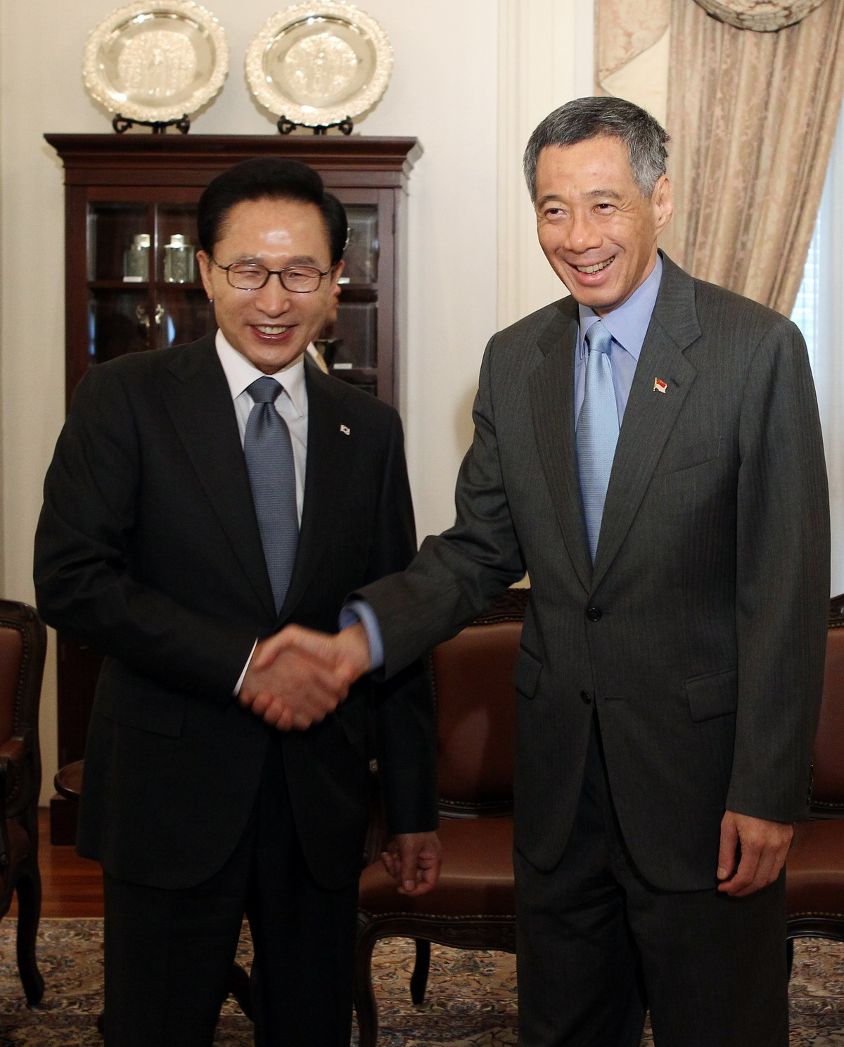 Summit meeting between Korean President Lee Myung-bak(l) and Singaporean Prime Minister Lee Hsien Loong(r) on Saturday (June 05).